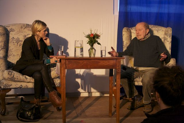 Crunch 2011